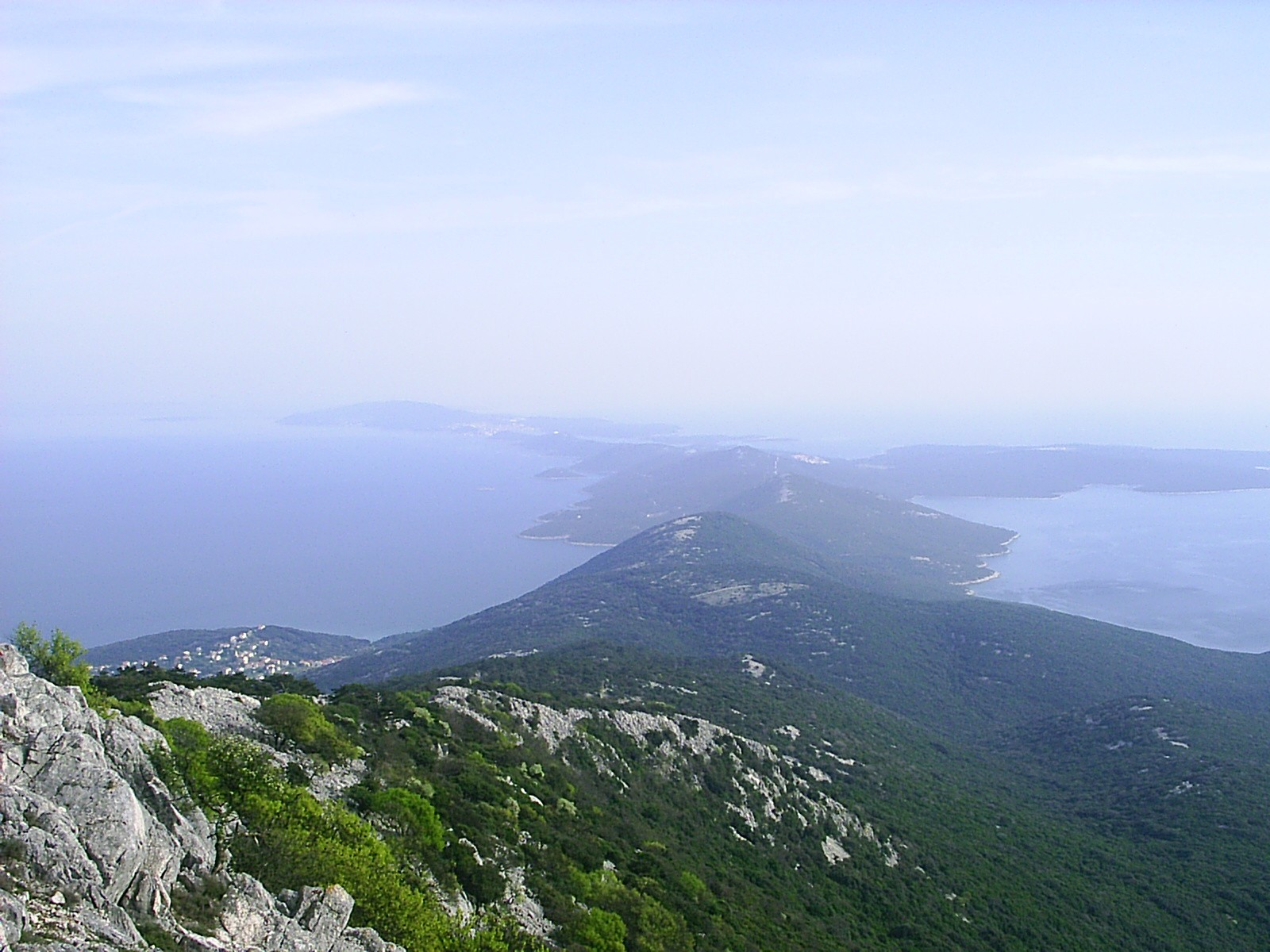 Televrina hill on the Lošinj Island, Croatia